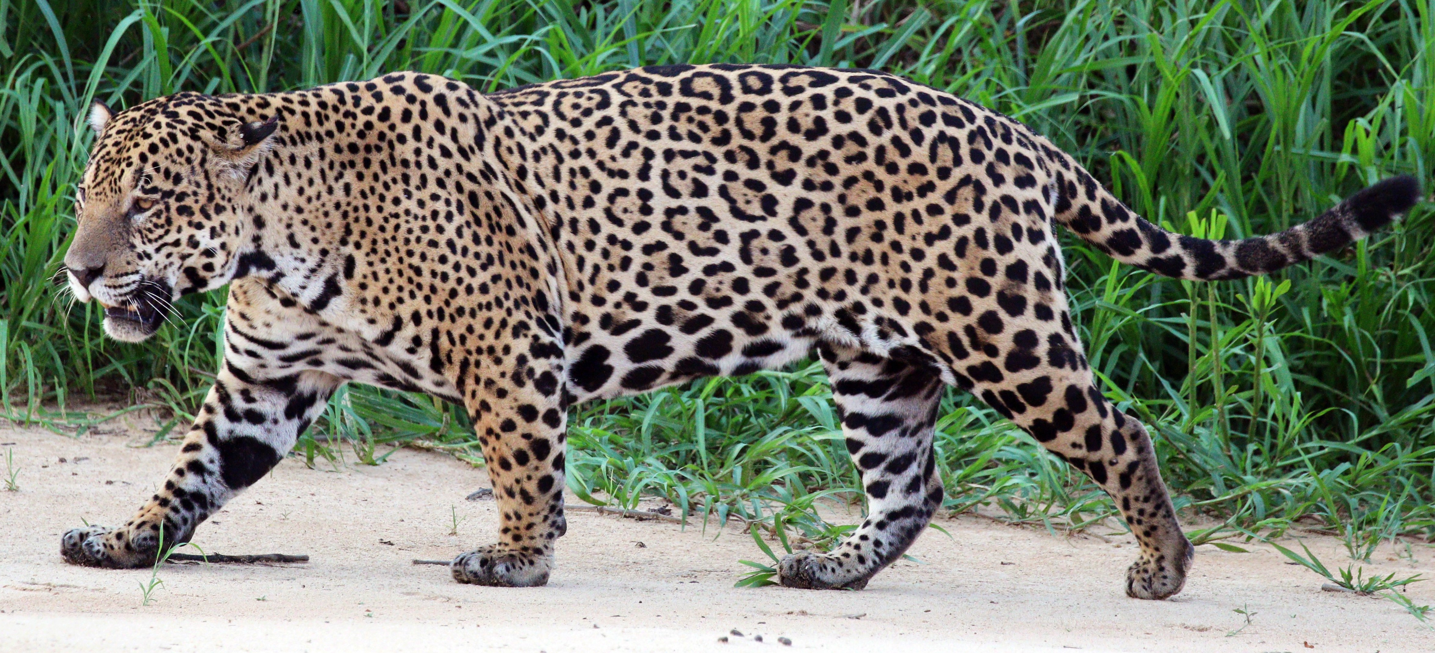 Crop of file in filename